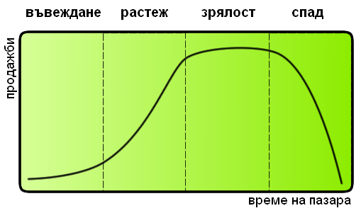 Image of the four major product life cycle stages (Bulgarian inscriptions)